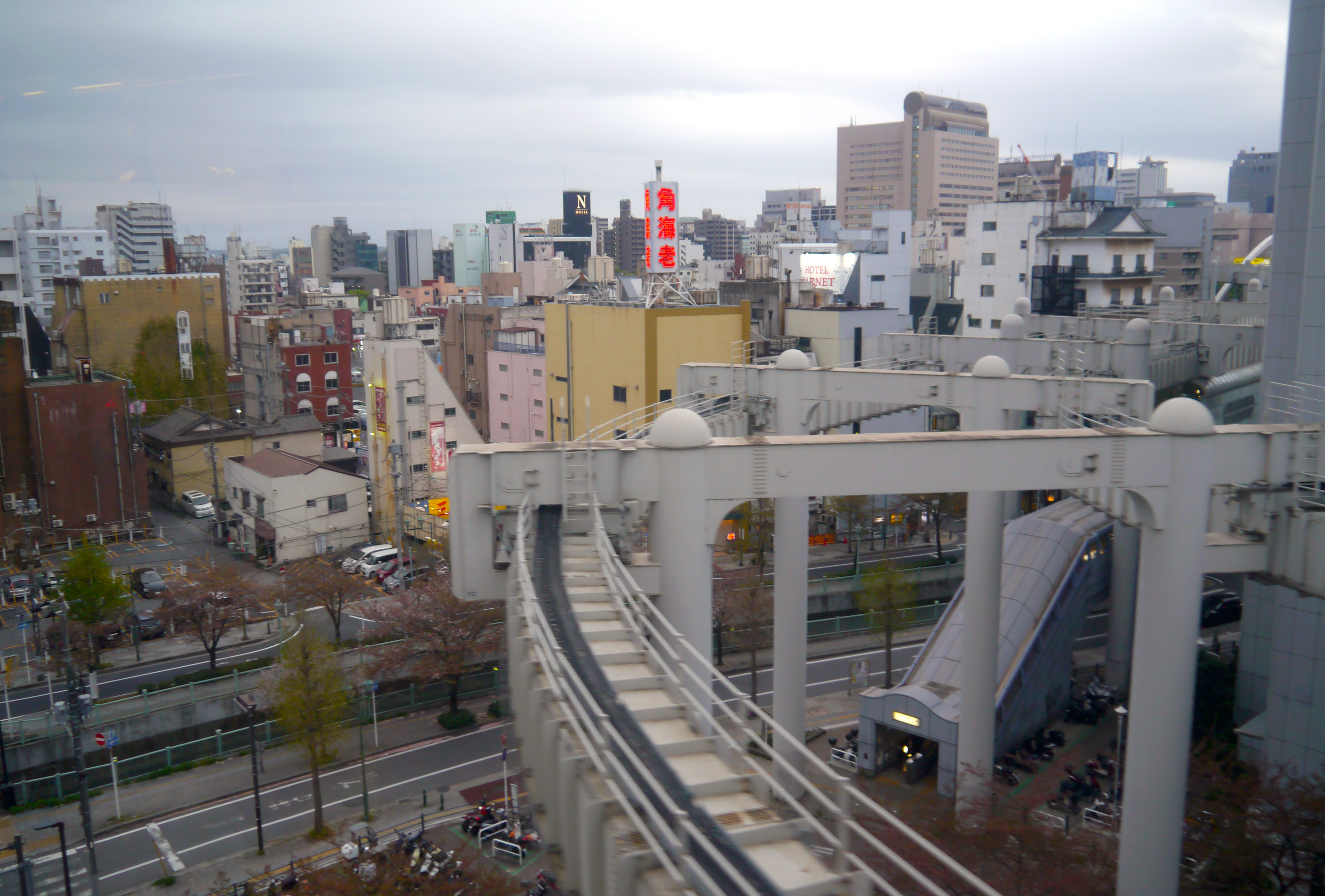 Trip with the Chiba Monorail, Chiba, Chiba Prefecture, Kanto Region, Japan